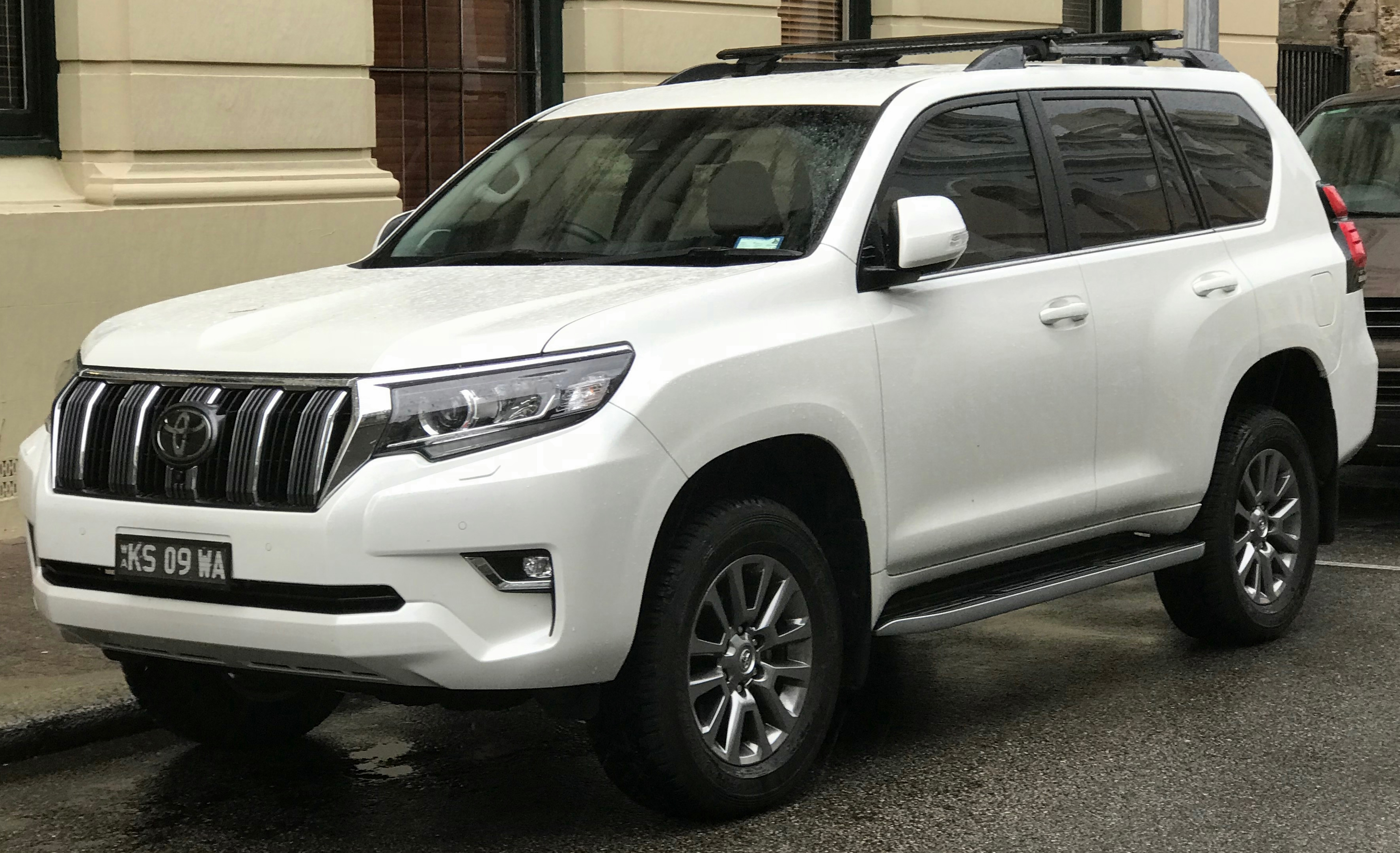 2018 Toyota Land Cruiser Prado (GDJ150R) VX 4WD wagon. Photographed in Fremantle, Western Australia, Australia.